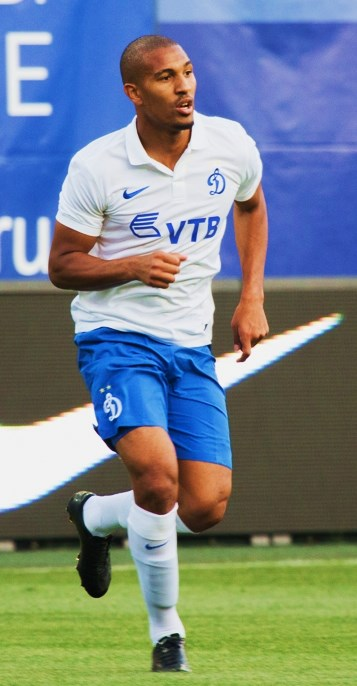 William Vainqueur 1